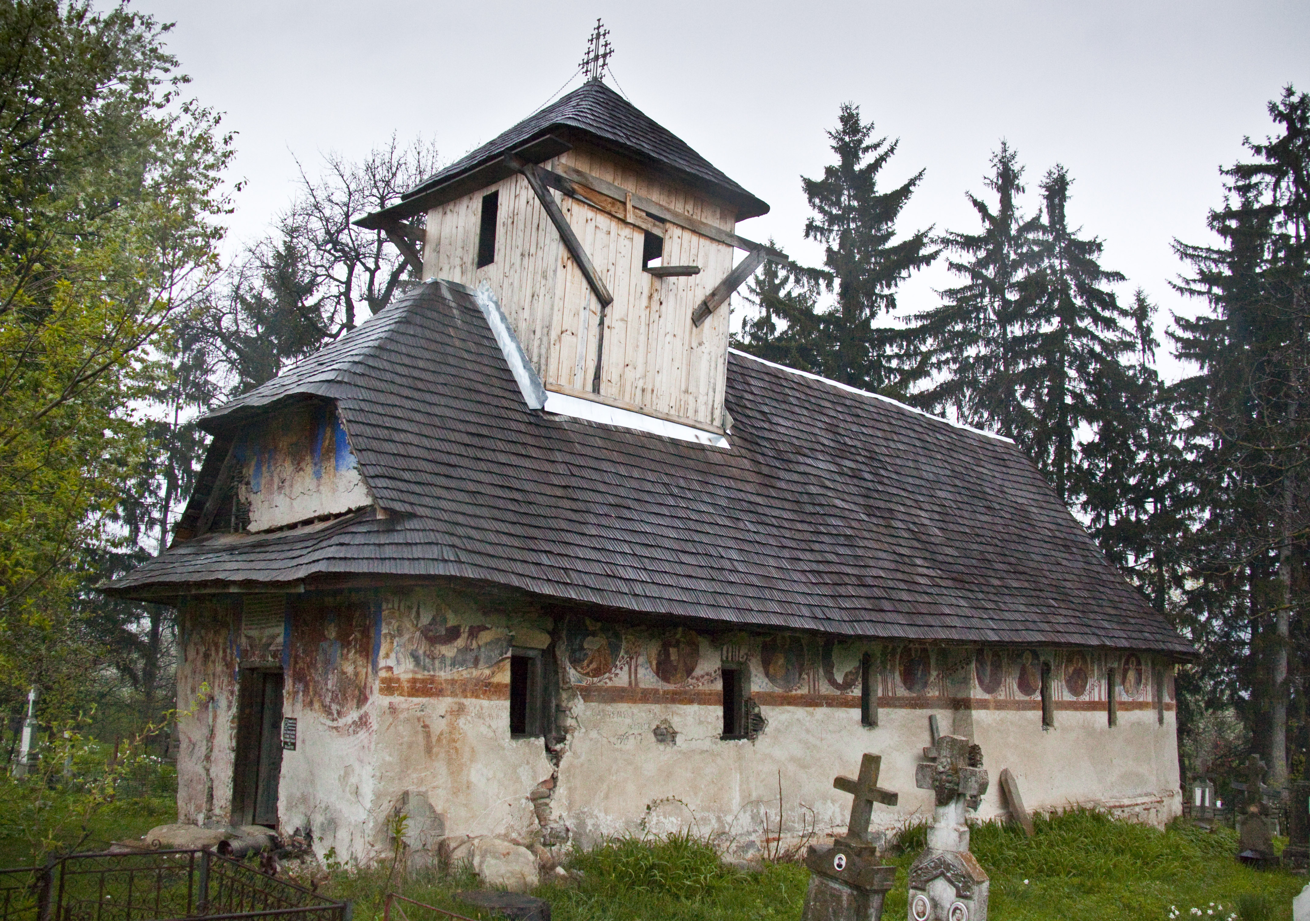 Gemenea-Onceşti, Dâmboviţa couny, Romania: the wooden church, SOuth-West.